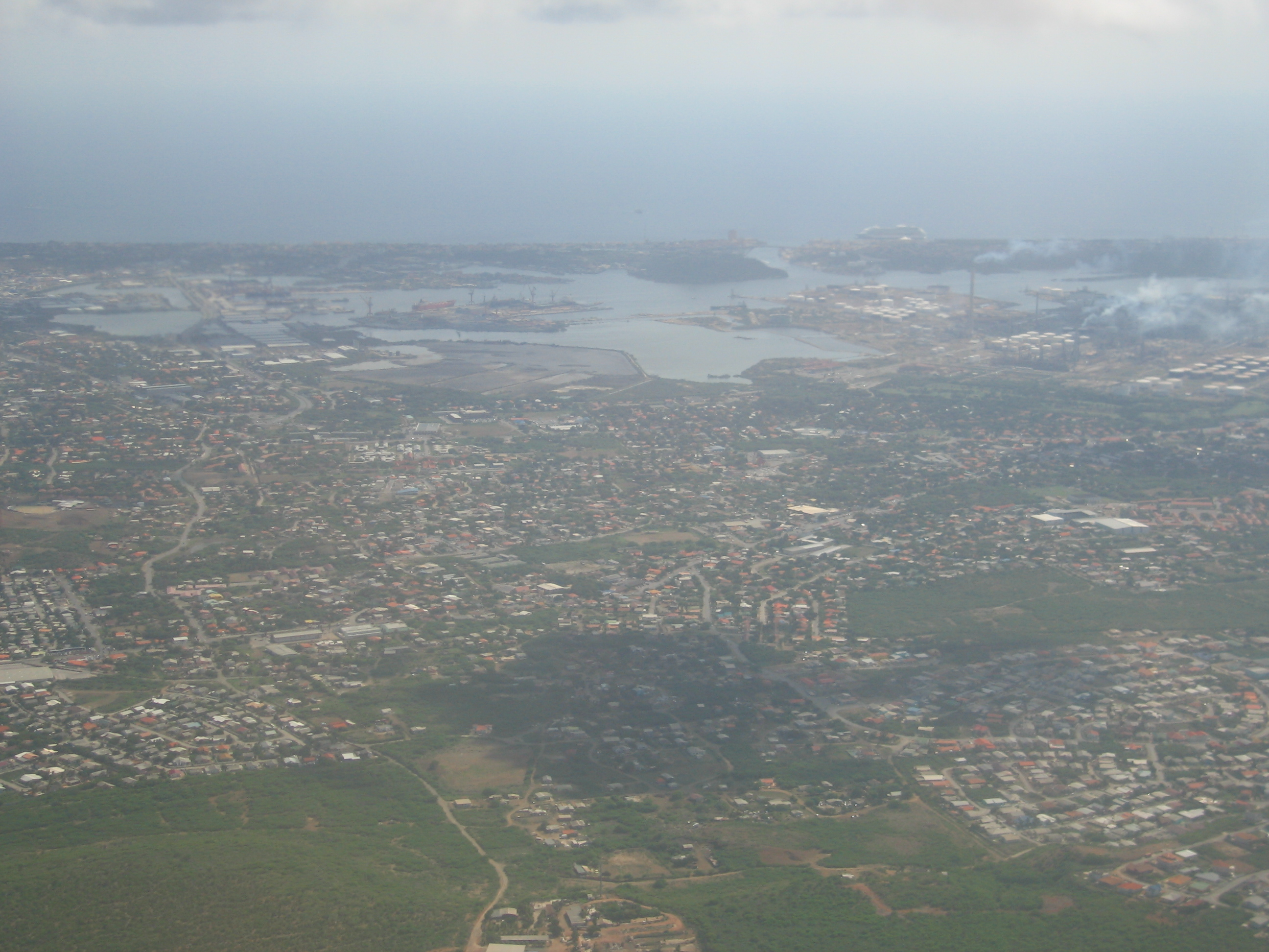 Wilhemstad on take of from Hato on the way to Bonaire